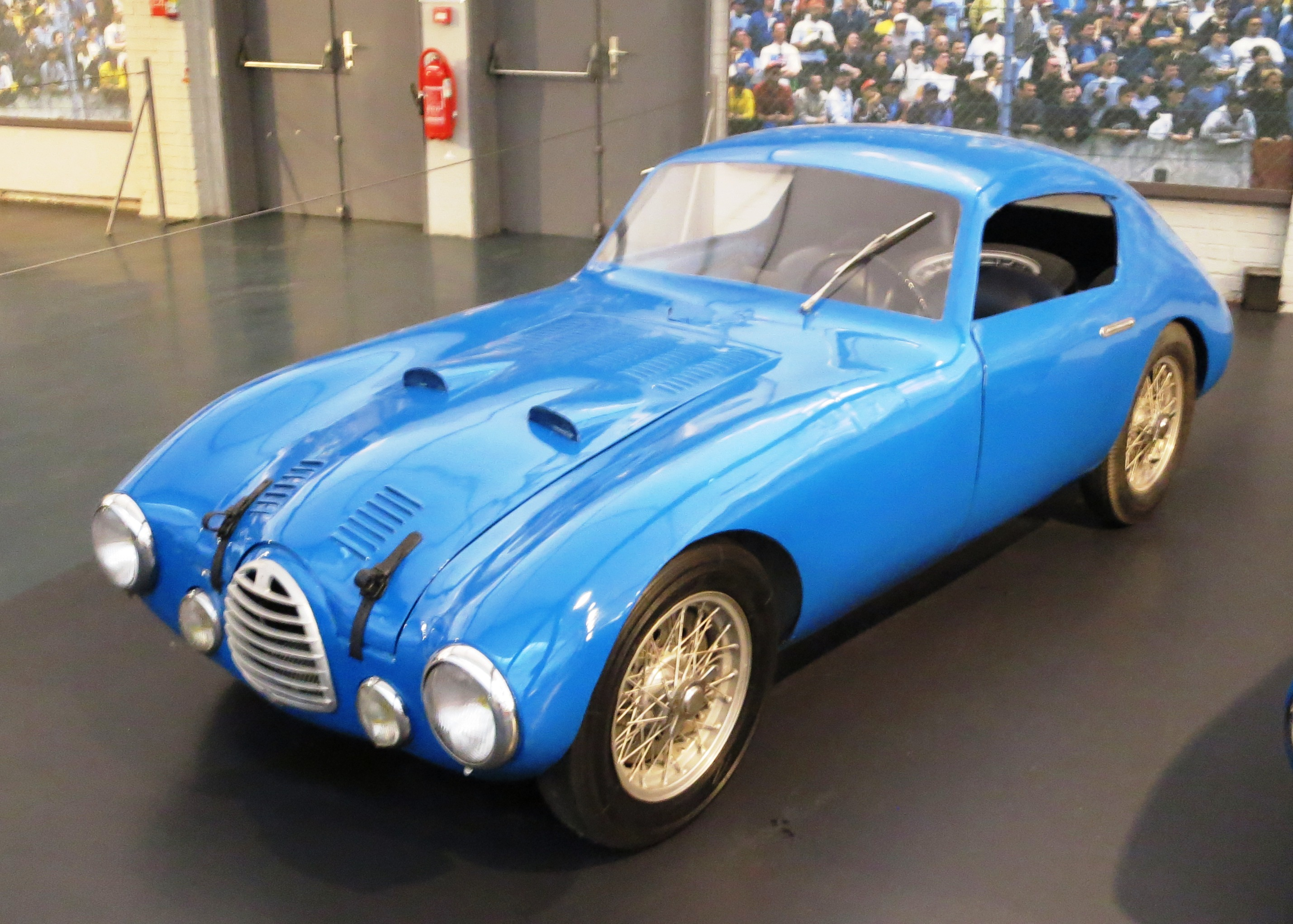 Gordini Type 15S (1950) The car competed in the 1950 24 Hour Le Mans race, but retired without finishing. The type was rare among Gordini racing sports cars of the period in having a fixed roof